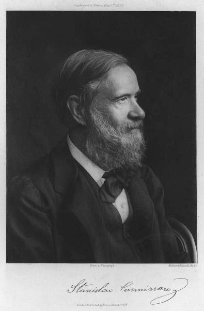 Scan of a photograph of Stanislao Cannizzaro